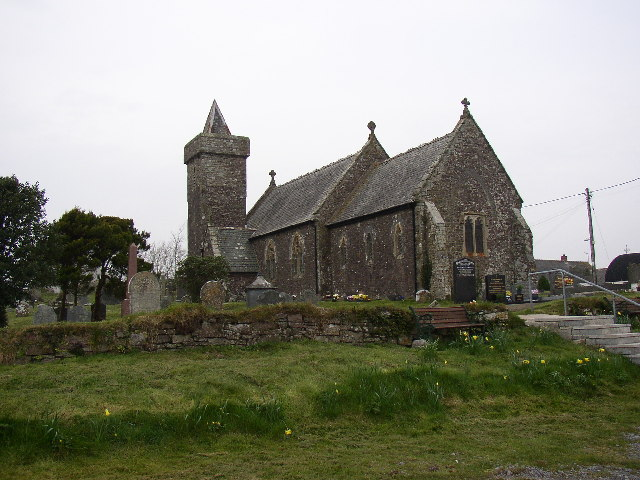 Llansadurnen Church. St Sadwrnen's Church might have been founded in the Celtic period, but the present church was rebuilt in 1859.